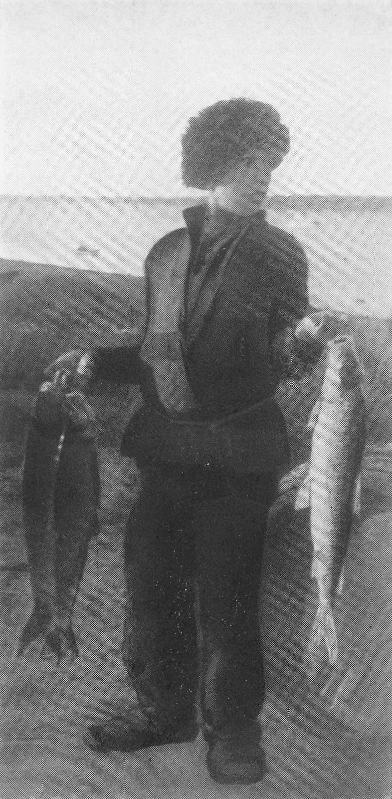 A boy with some muksuns (Coregonus Muksun)